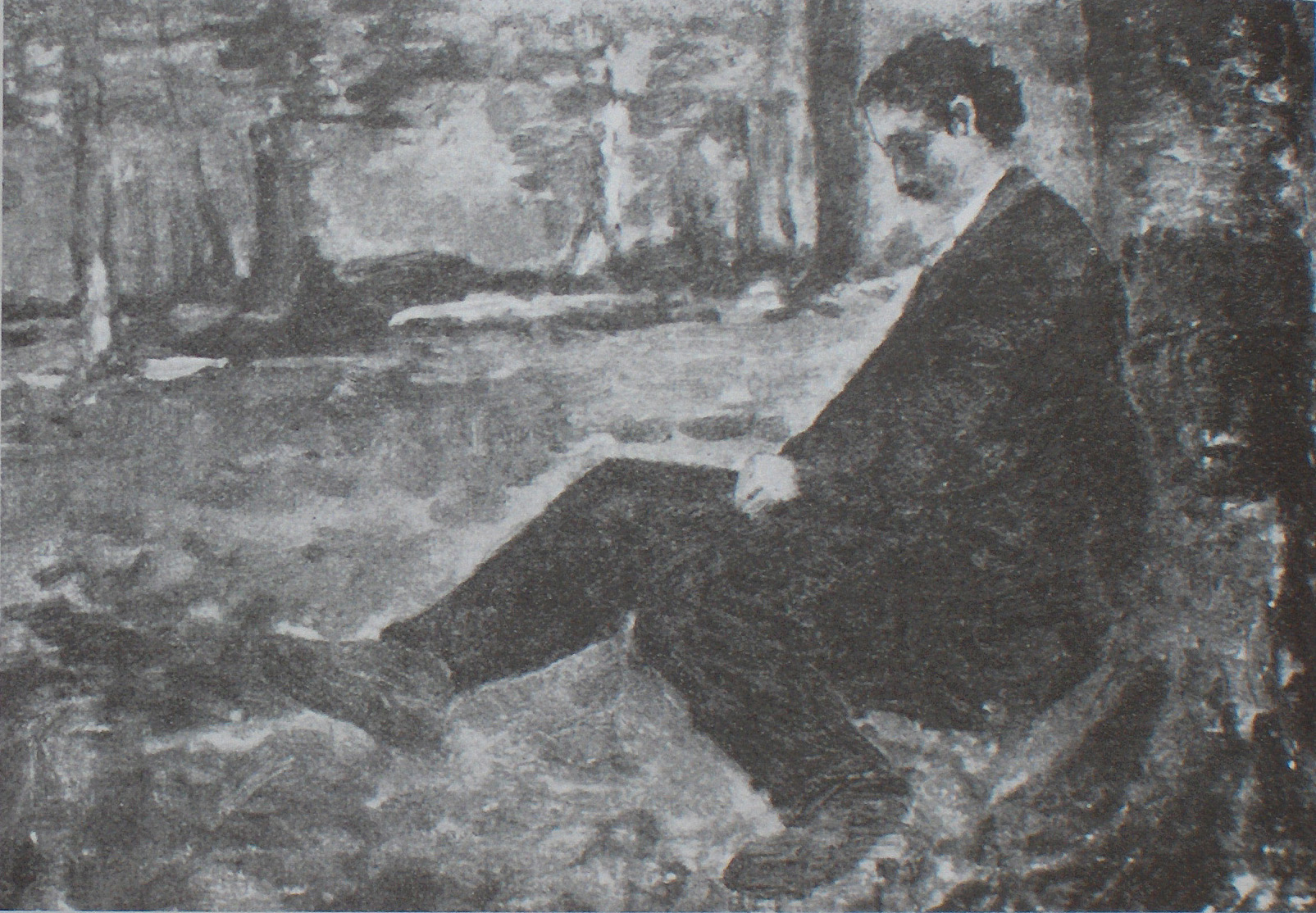 The Belgian painter Hippolyte Boulenger (1837-1874) sketching in Tervuren (1863); by Camille Van Camp (1834-1891)